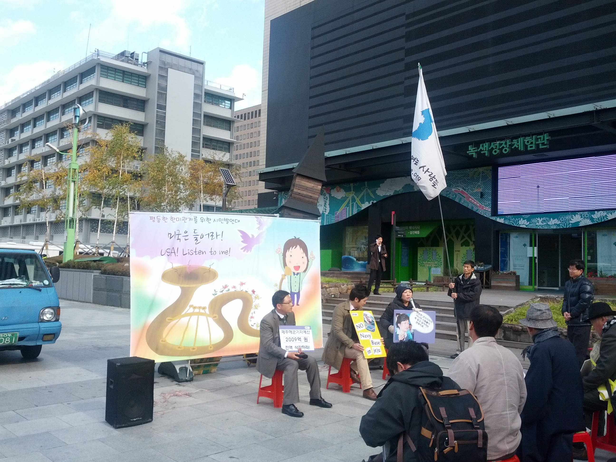 Rally against the planned United States Jeju-do Naval Base across from the U.S. Embassy Seoul downtown Seoul